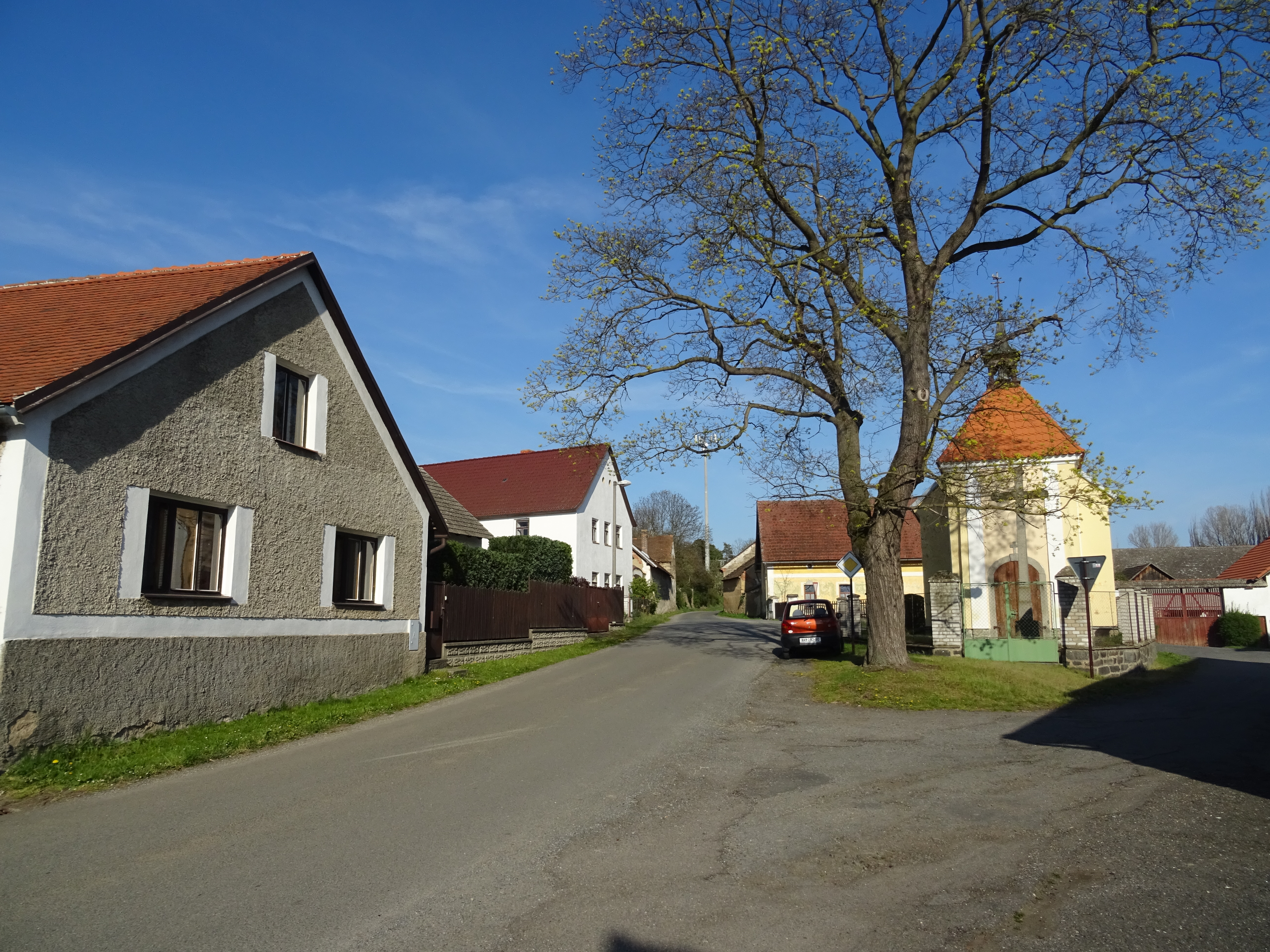 This photograph was created as a part of Wikiexpedition Mladá Vožice, a project supported by Wikimedia Foundation grant.